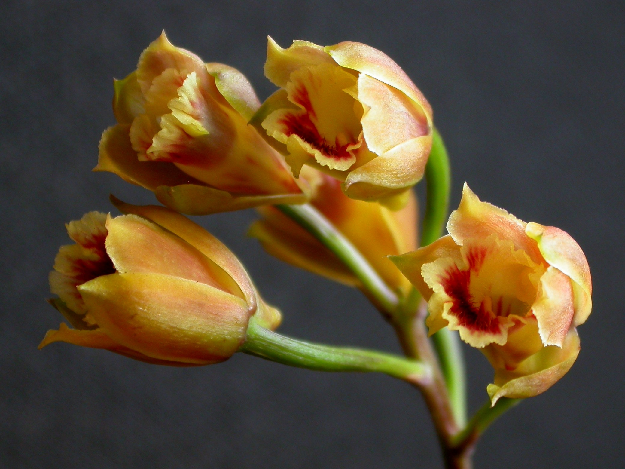 Bifrenaria stefanae